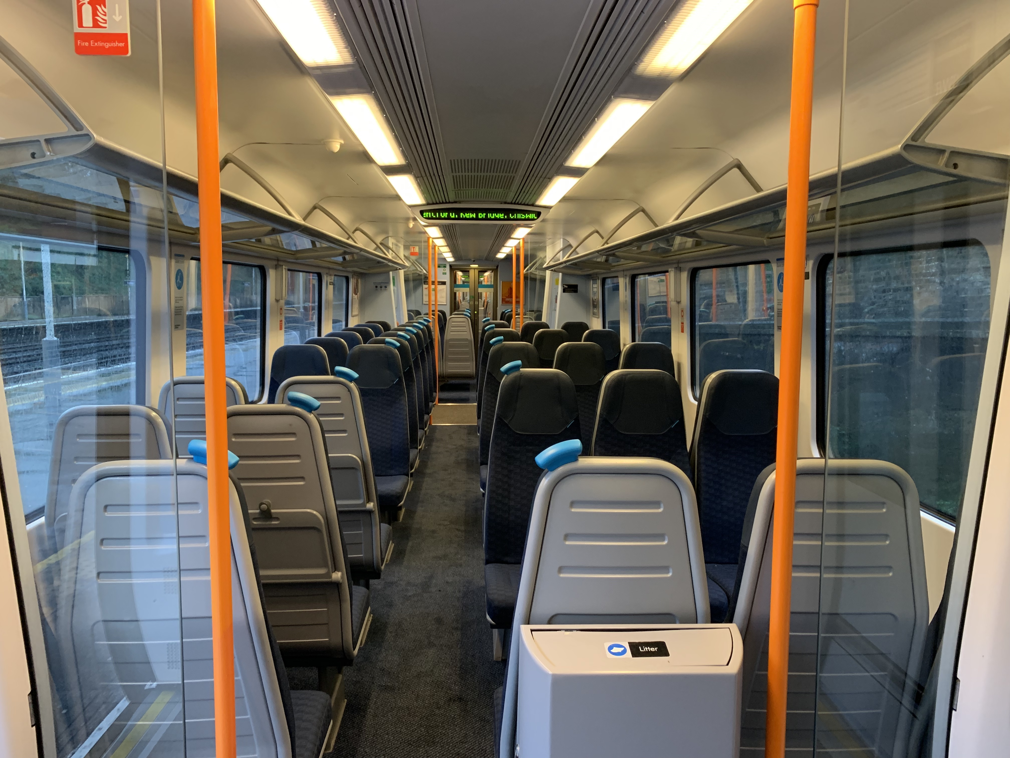 South Western Railway's fully refurbished Class 450 interior. Note the orange grab handles (left over from SWT) in the door areas, and the light blue grab handles on the seats (in SWR colours).